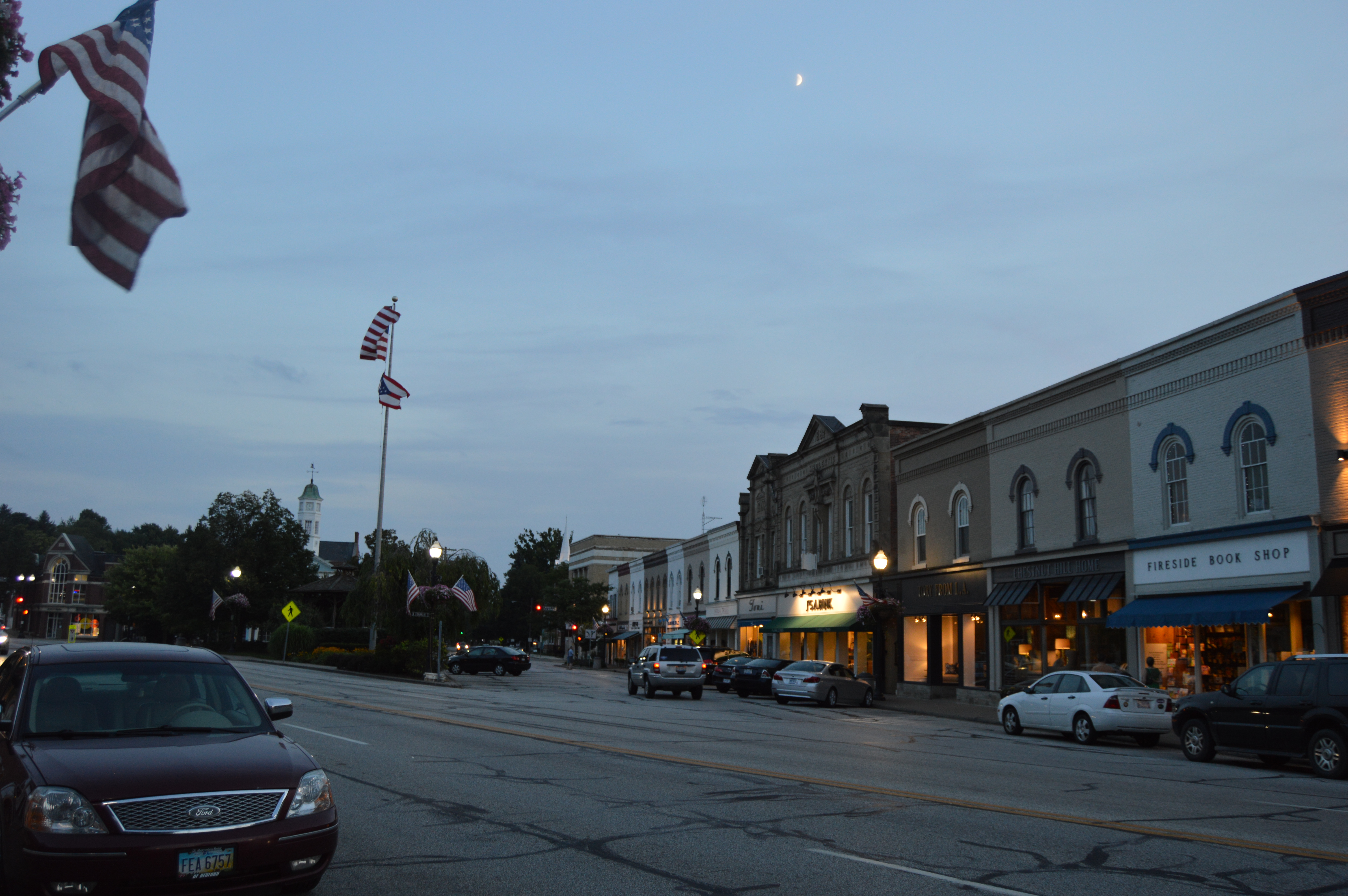 Looking south along Franklin Street from the Main Street intersection in Chagrin Falls, Ohio, United States. This section of downtown Chagrin Falls is part of the Chagrin Falls Triangle Park Commercial District, a historic district that is listed on the National Register of Historic Places.